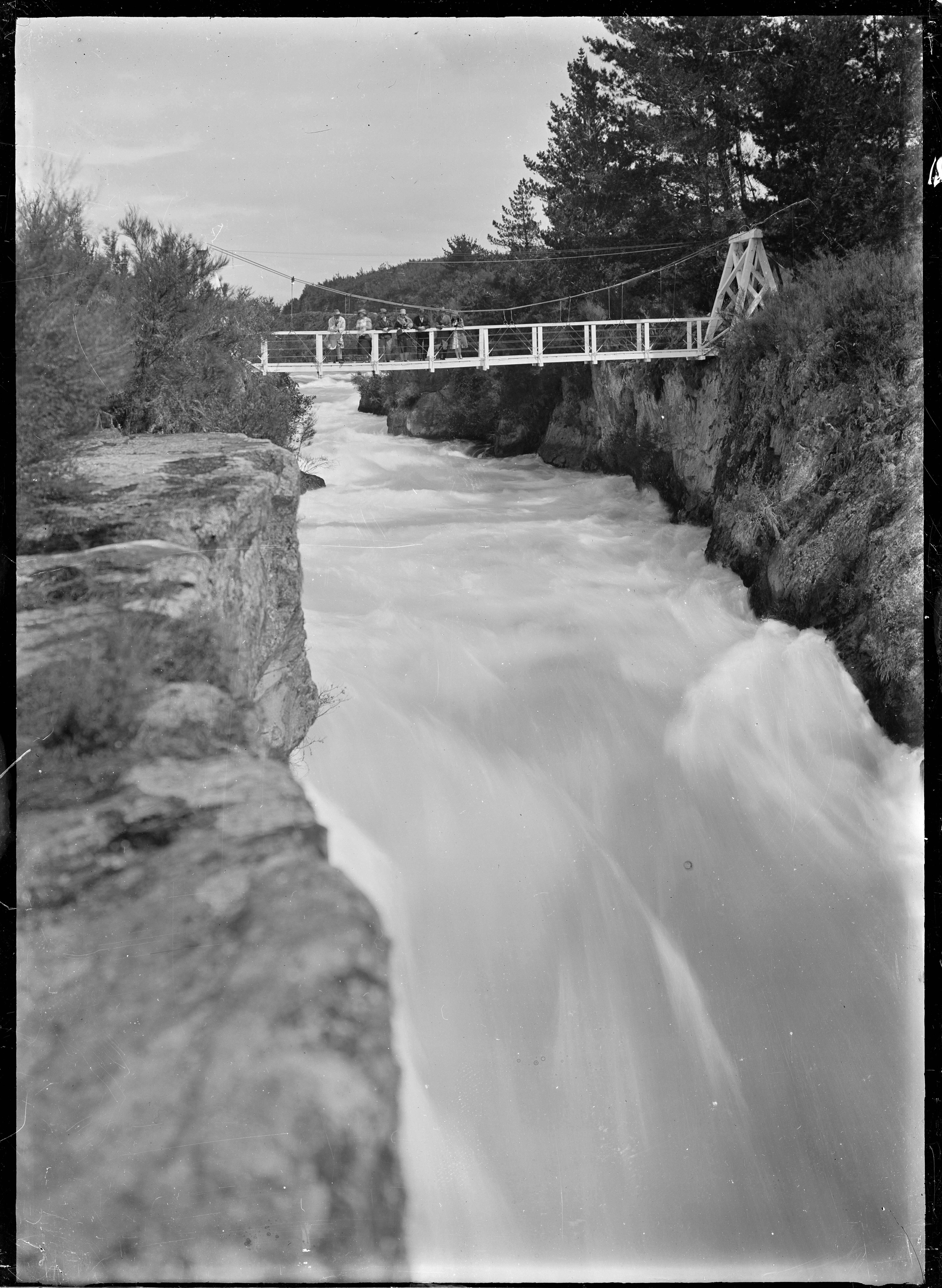 View looking up the Huka Falls, with a group of people standing on the suspension bridge above the falls. Photographed by Albert Percy Godber in 1928.